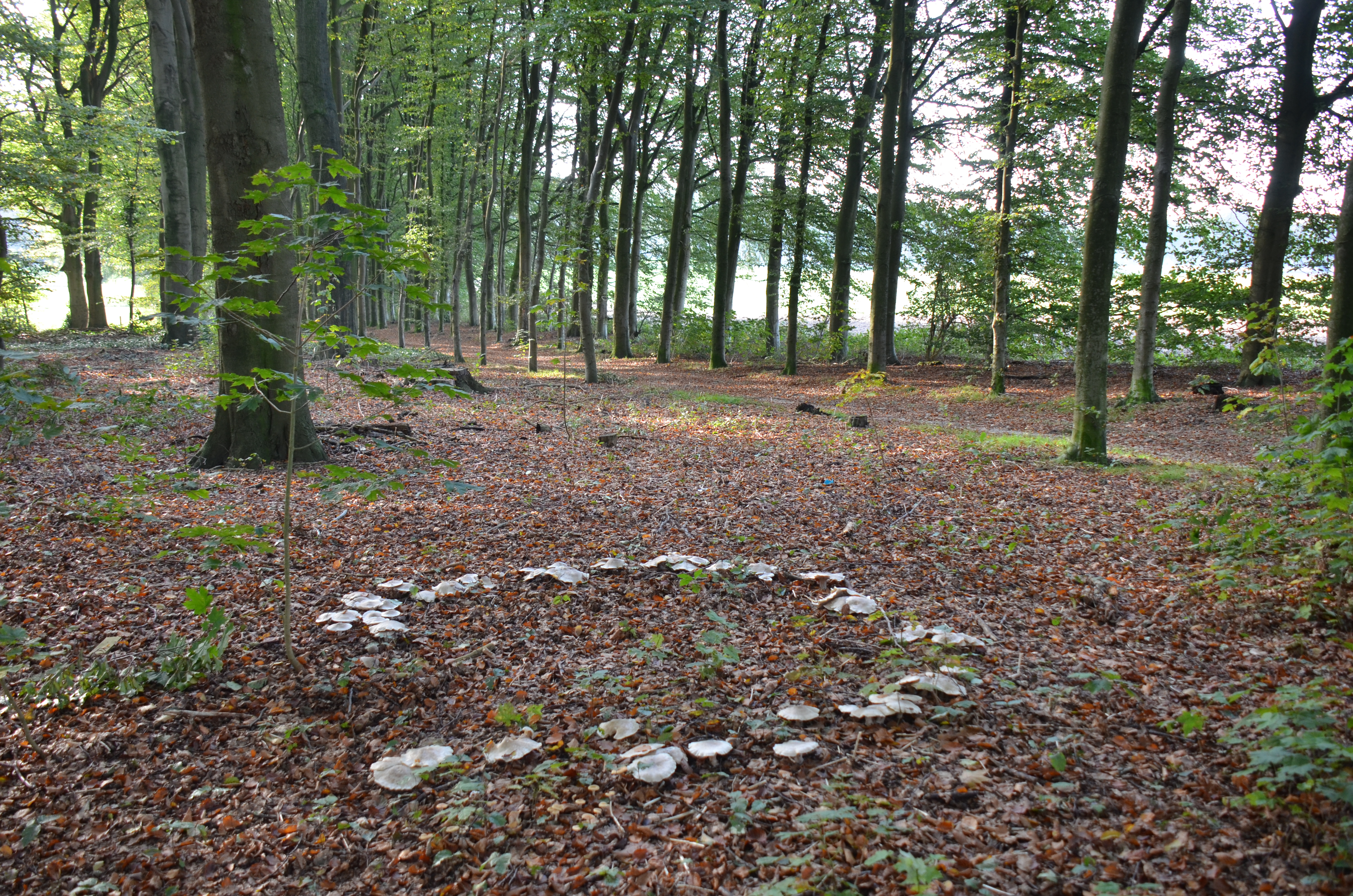 Clitocybe nebularis, Syn Lepista nebularis (GB= Clouded Funnel, Syn. Clouded Agaric, D= Nebelgrauer Trichterling, Syn. Nebelkappe, F= Clitocybe nébuleux, NL= Nevelzwam), white spores, along the Bakenbergseweg/Hoge Erf Schaarsbergen in the characteristic fairy ring (Heksenkring)